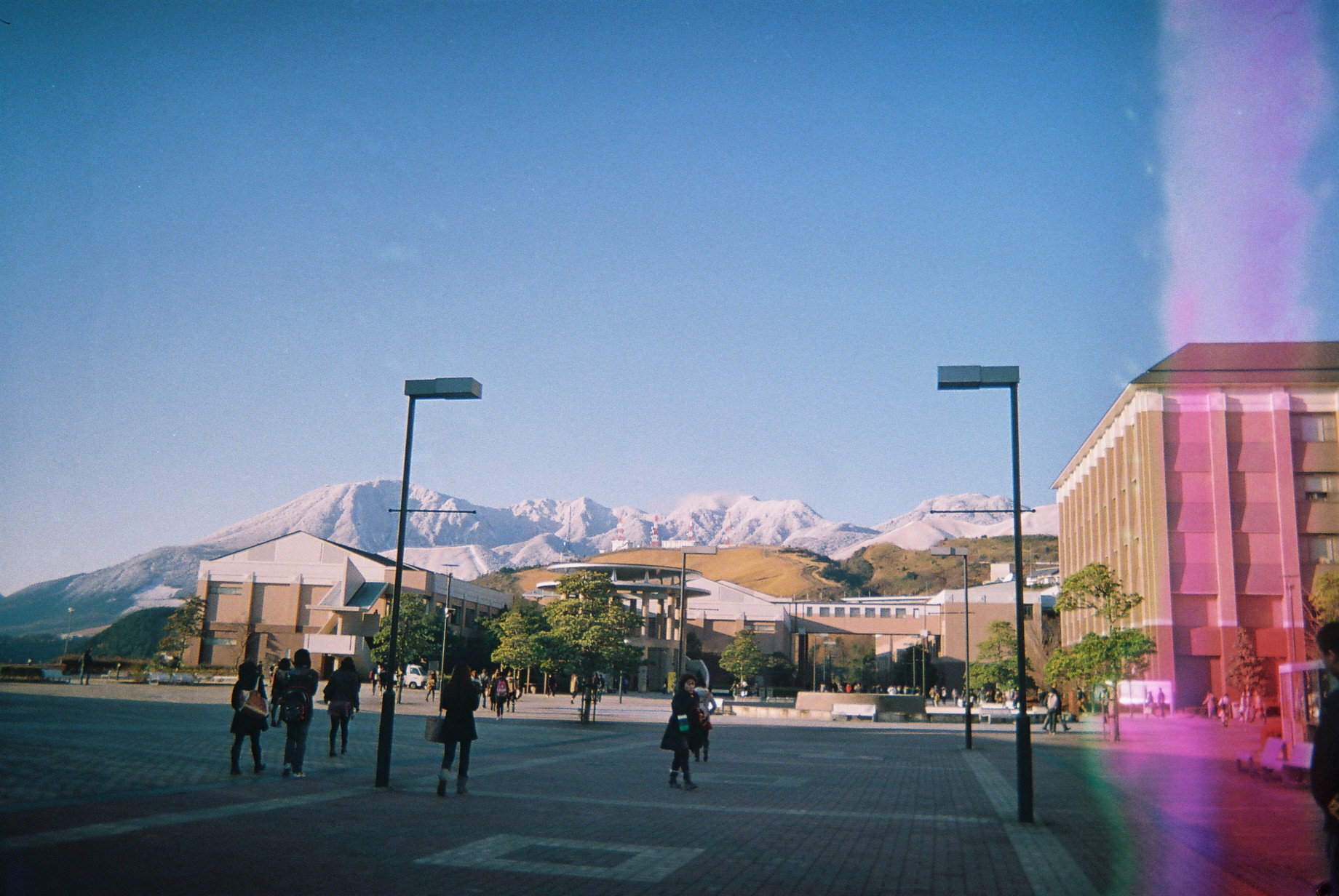 This photo was taken early January 2012 on the first snow day on a disposable film camera. The film was later developed on February 2012. The pink stain on the right side of the photo is due to a water stain on the camera film.